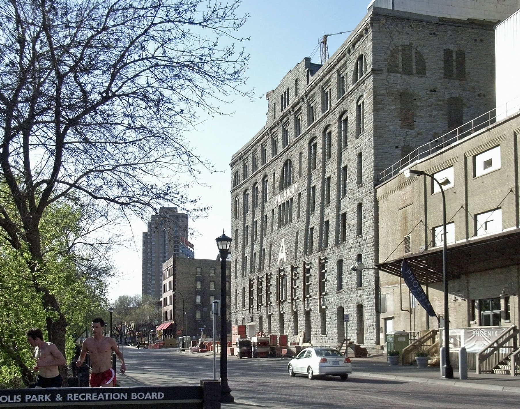 Ancient Pillsbury flour mill in the former town of St. Anthony, on the east bank of the Mississippi across from Minneapolis.